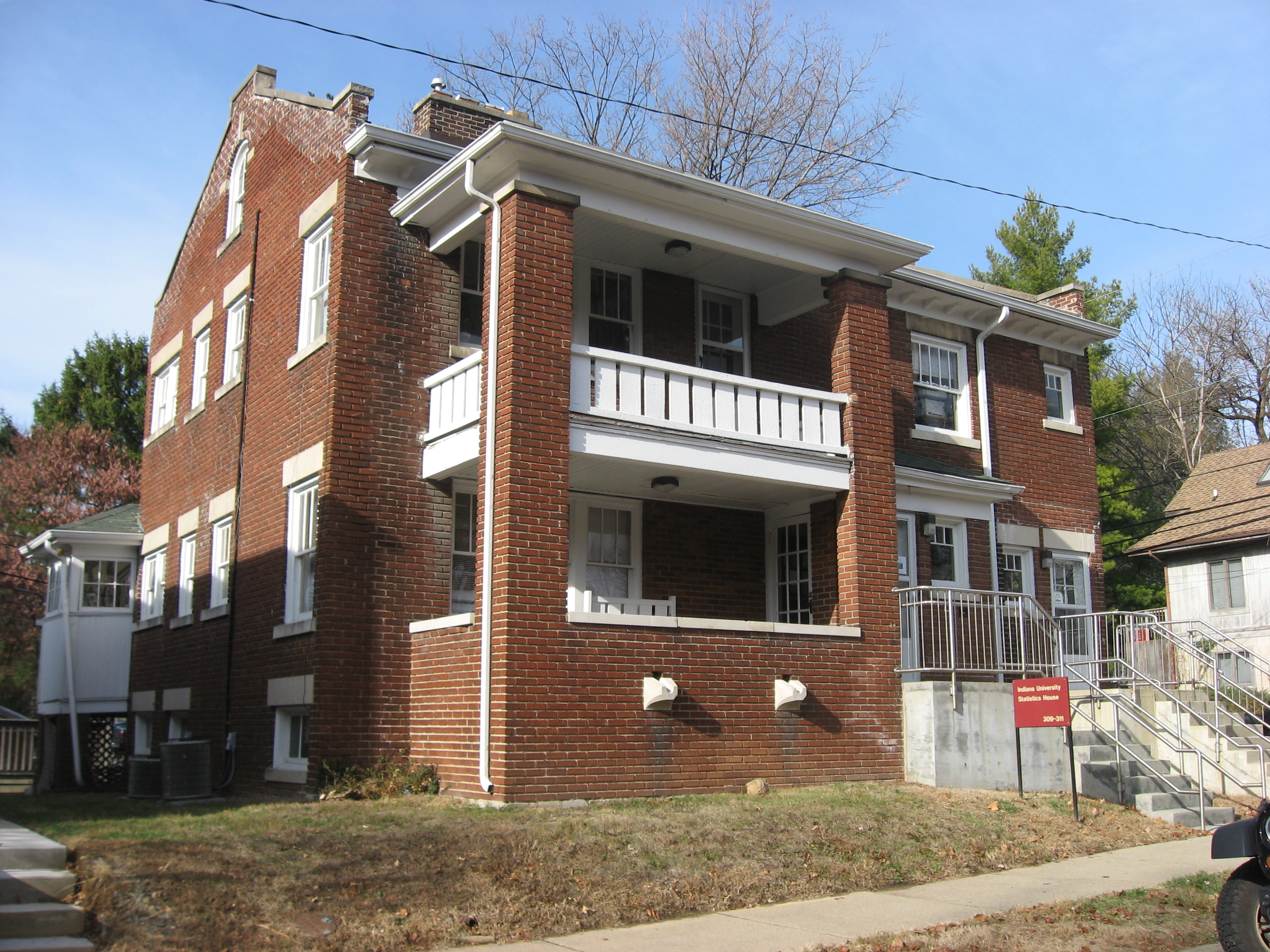 Front of the Indiana University Statistics House, located at 309-311 N. Park Avenue in Bloomington, Indiana, United States. Built in 1930, it is a part of the University Courts Historic District, a historic district that is listed on the National Register of Historic Places.